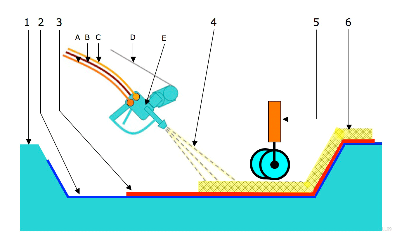 Spray_lay-up_process. 1 Mold. 2 Release agent. 3 Gelcoat. 4 Deposit fiber resin mixture. 5 Rolling. (removing air for good fiber wetting). 6 Trimming. A Supply resin (A component). B Supply resin (B component). Supply air pressure. D Supply fiber. E Spray-up / Chopper gun.